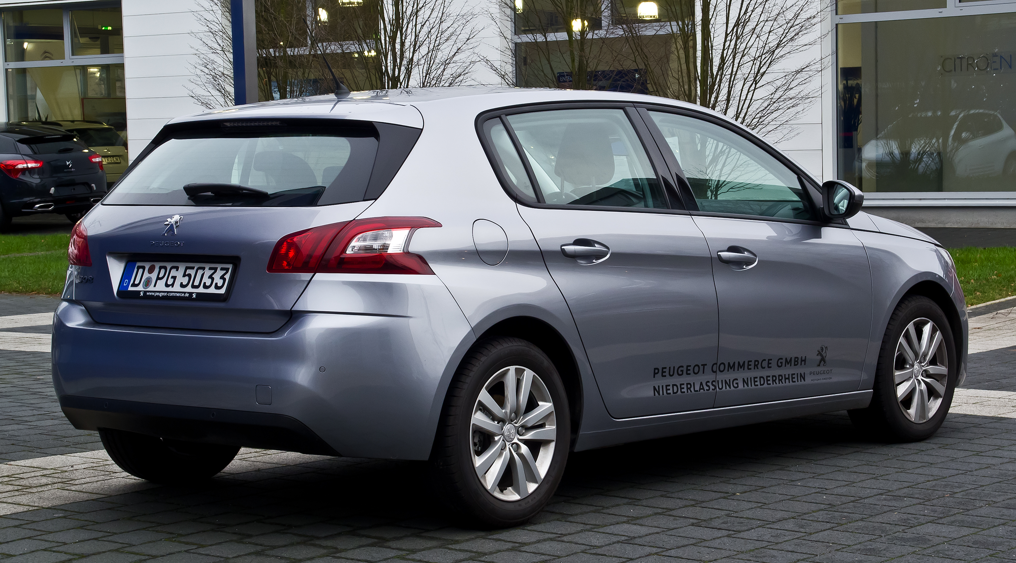 Peugeot 308 82 VTi Active (II)